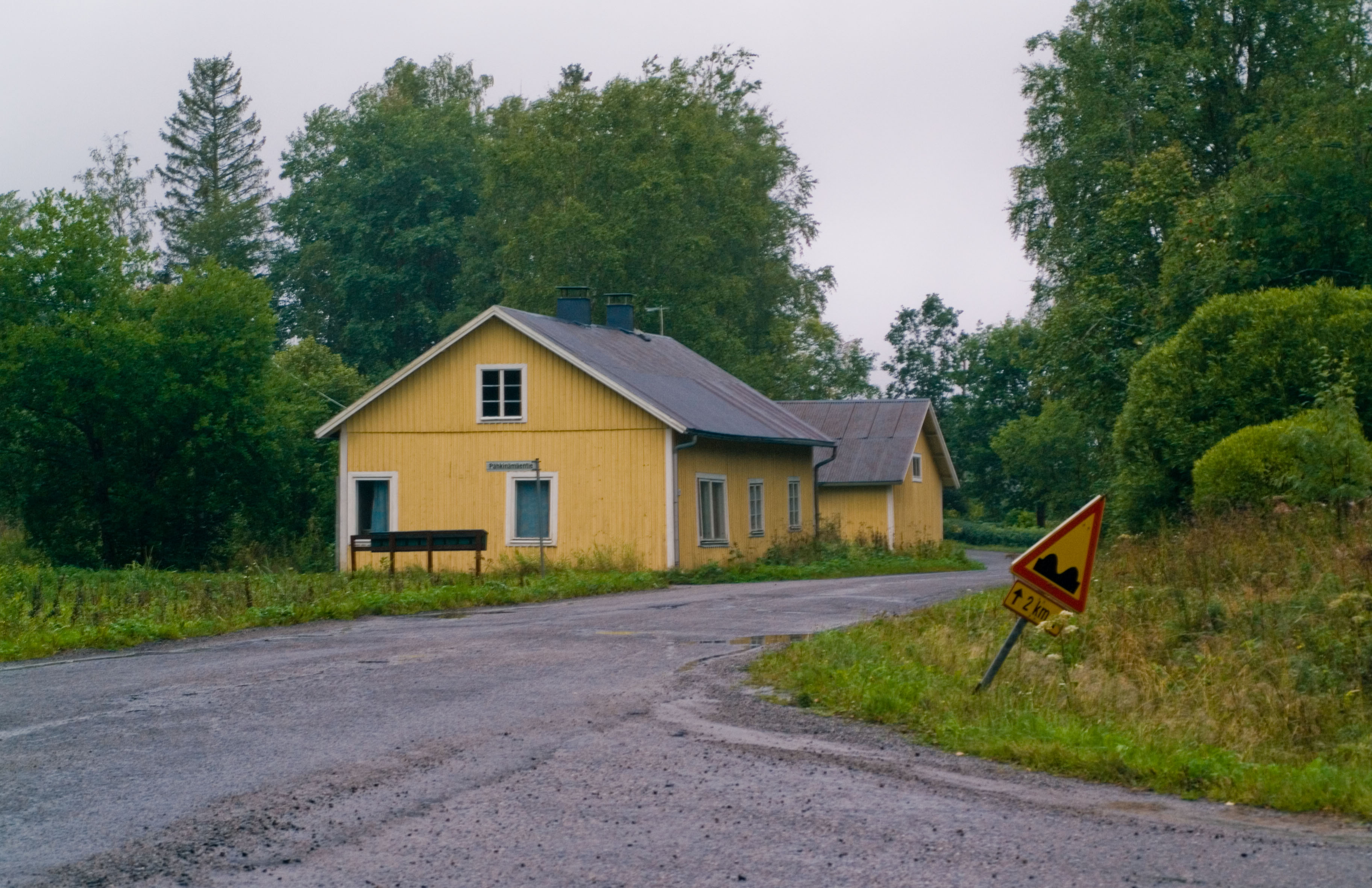 Sääkskoski village in Kokemäki, Finland, located in the southeastern corner of Sääksjärvi lake.